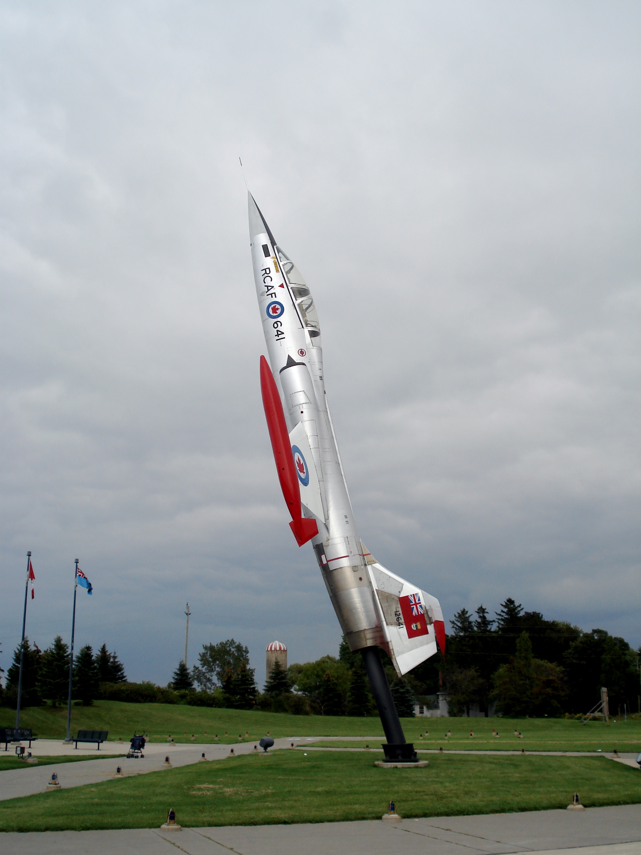 CF-104 Starfighter mounted as a monument in front of Canadian Warplane Heritage Museum. Photo taken on September 4, 2006. Source: Photo by me, User:Balcer.